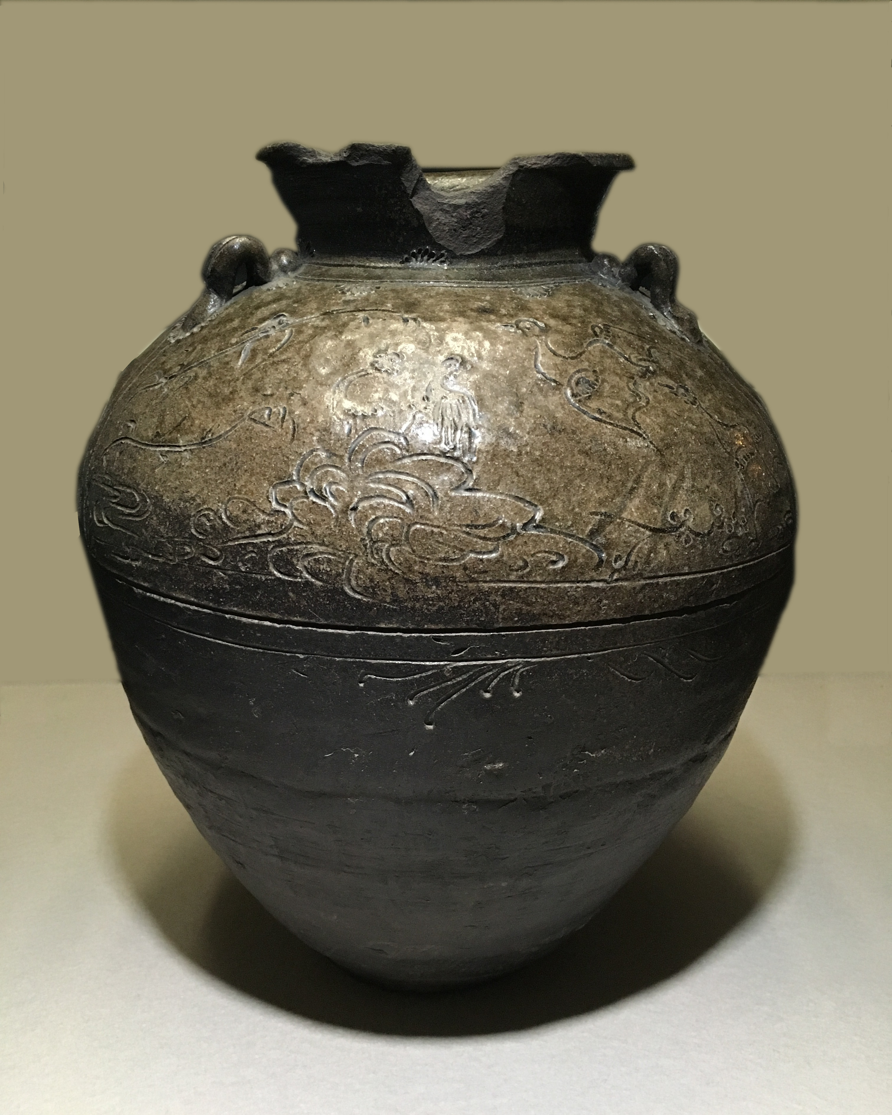 Jar with three decorative lugs, incised herons and reeds design, ash glaze. Atsumi ware. Final Heian period, 12th century. Height: 39.3 cm Mouth Diameter: 16.5 cm Diameter: 34 cm Other: 13.5 cm (bottom diameter) Note: Gift of Matsunaga Memorial Hall (Matsunaga Kinenkan). Registered Important Cultural Property of Japan.